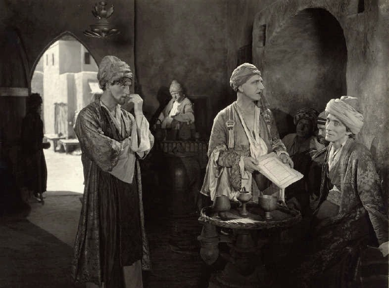 Unidentified actor (left), Guy Bates Post (middle), and Nigel De Brulier (seated) in Omar the Tentmaker (1922) - film screenshot.